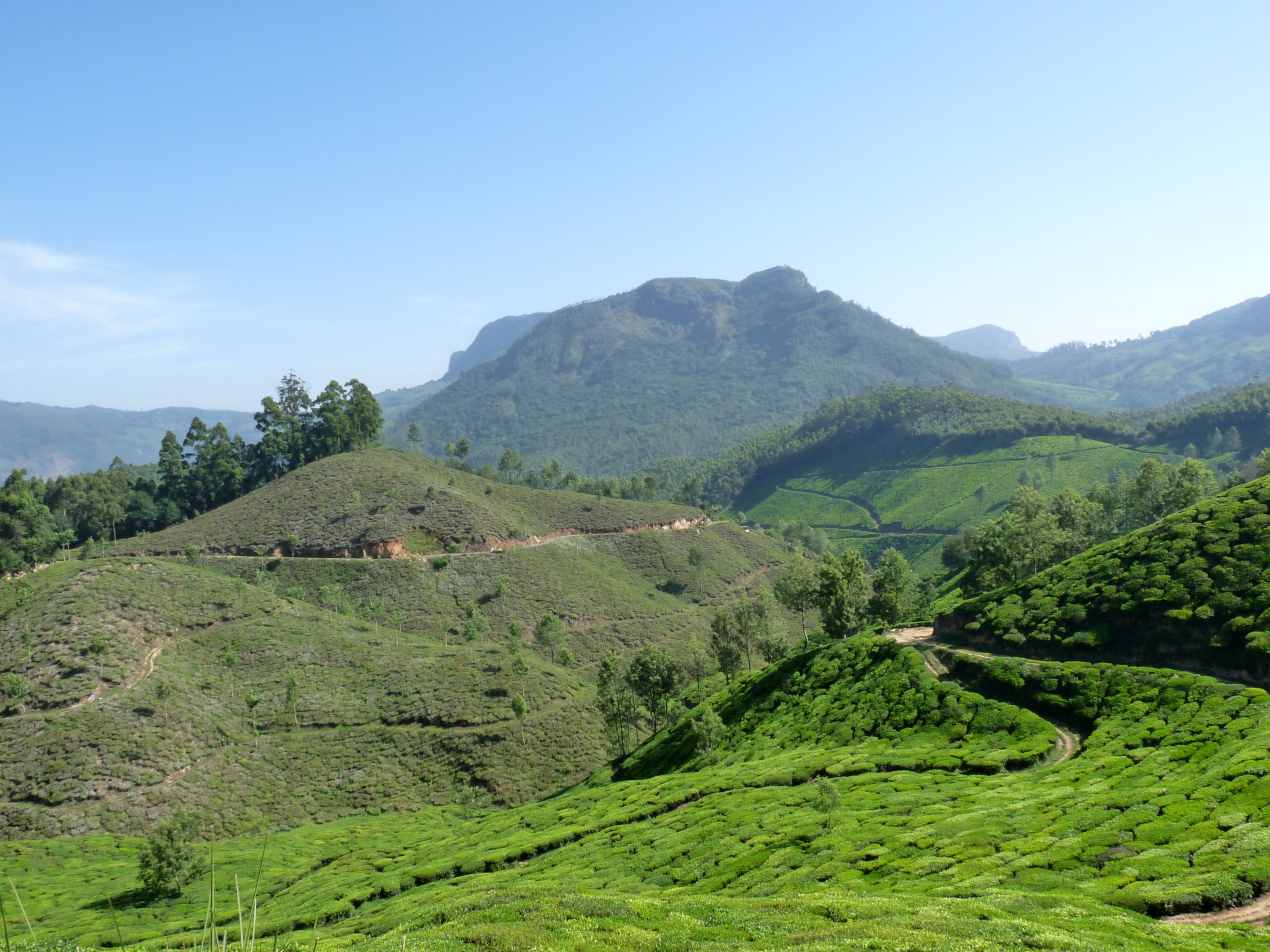 View of tea plantations in Munnar.